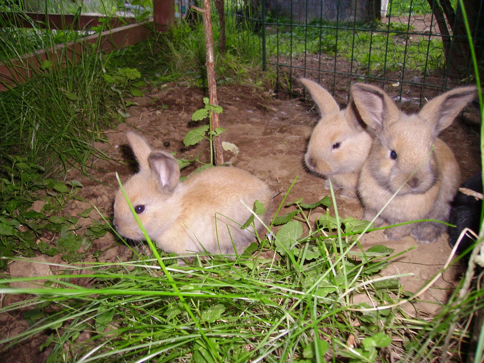 Four weeks old Gotland rabbits. Picture taken around 2009.